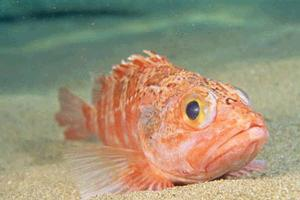 Picture of Helicolenus dactylopterus